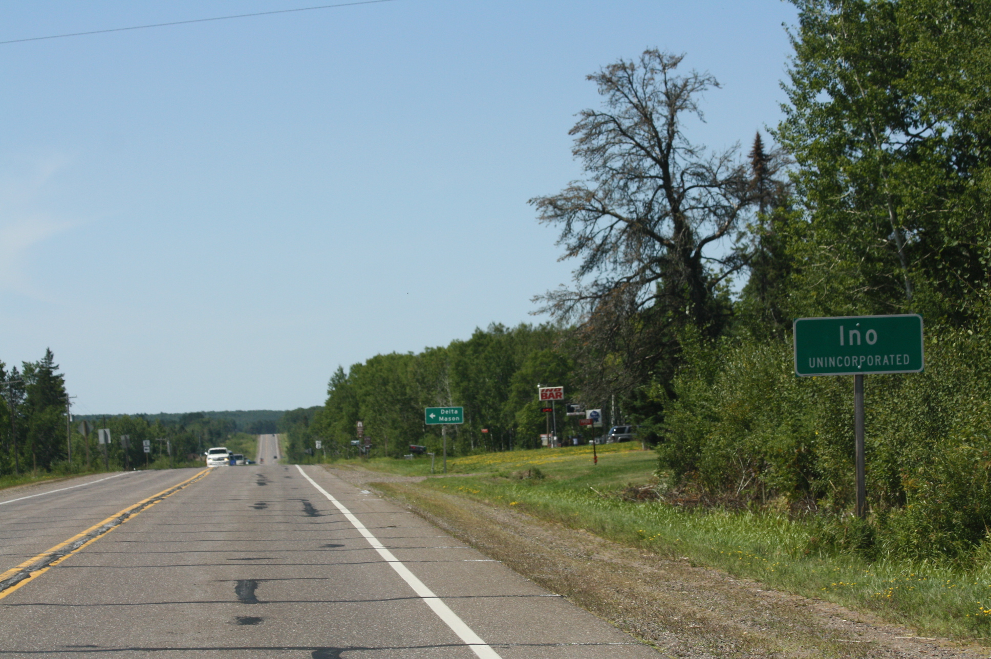 Looking west at the sign for Ino, Wisconsin on U.S. Route 2.